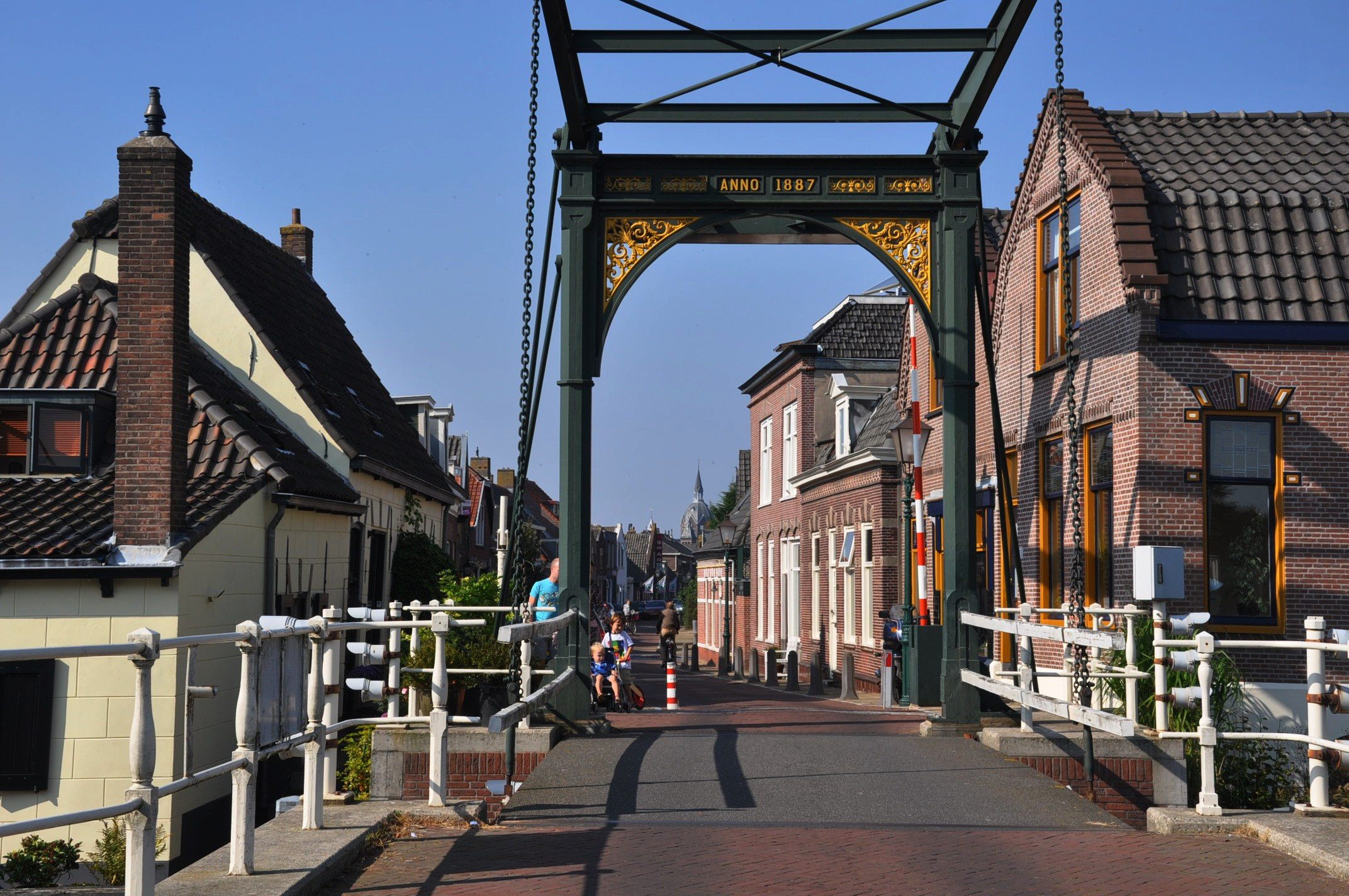 Drawbridge over the river Does in Leiderdorp's main street (Hoofdstraat); (Province of South Holland, Netherlands).